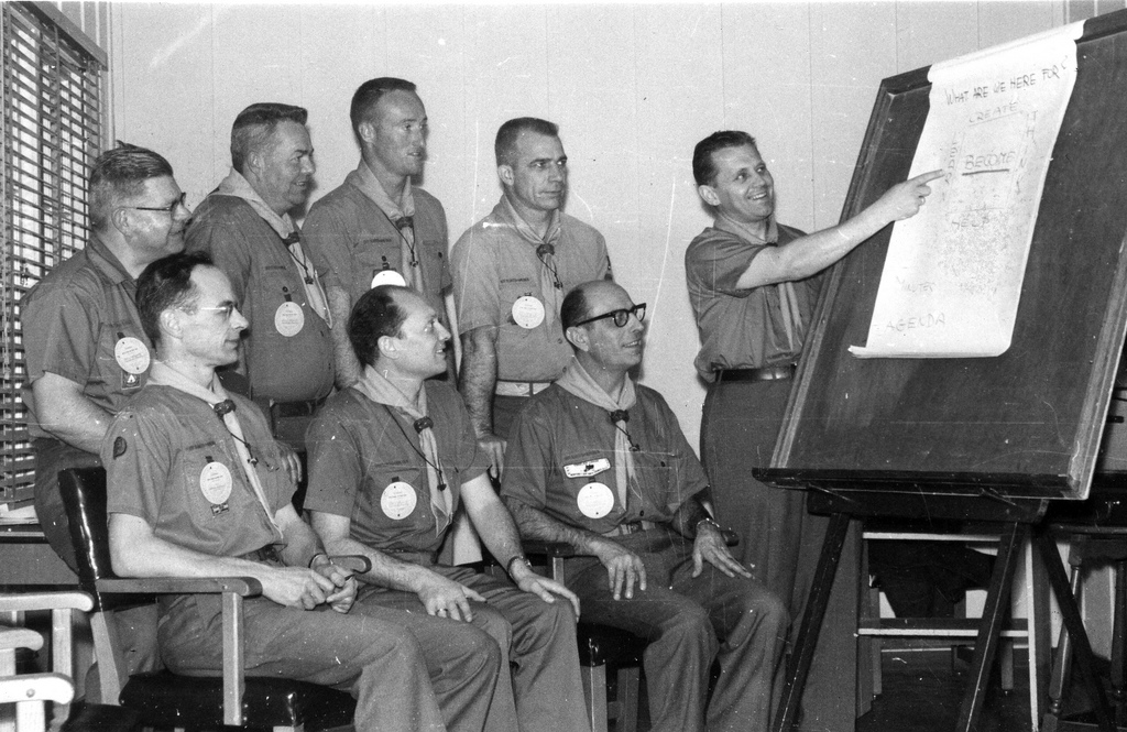 1962 Wood Badge staff development at Fort Ord, in Monterey County, California: Front row, L-R Joe McConnell (Supervisor, Aeronautical Lab, U.S. Naval Postgraduate School); Alex Szaszy (Hungarian Instructor, Army Language School), Tiz Urbani (furniture salesman and Scouter from San Lorenzo Valley, Santa Cruz), Bela Banathy; Back row, L-R Joe St. Clair, William "Bill" Sutcliffe (Felton), Bob Bowman (Salinas), Tom Moore (Monterey Bay Area Council Scout Executive) Flipchart says: "What are we here for? Create, Think, Help, Learn, (in box middle) BECOME"